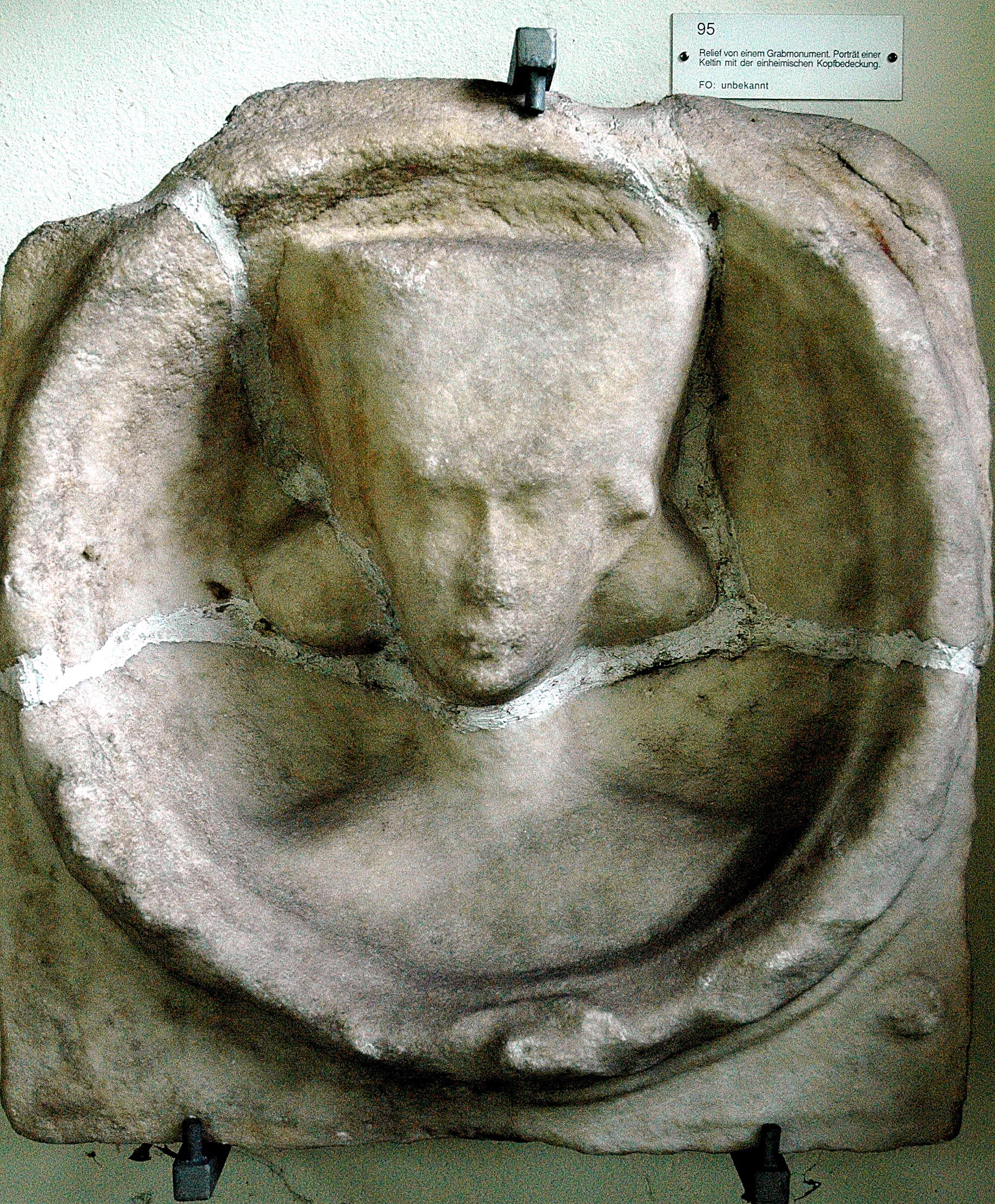 Portrait of a female Celt, stone relief taken from a grave monument, Paulitschgasse in Klagenfurt, inner city, capital of the state Carinthia / Austria / EU